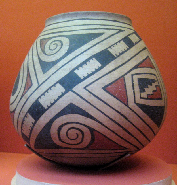 Mexico, Chihuahua, Paquimé Jar, A.D. 1280-1450 Ceramic, Slip-painted ceramic, Gift of Nasli M. Heeramaneck (M.73.48.2) Wikipedia Loves Art at the Los Angeles County Museum of Art This photo of item # M.73.48.2 at the Los Angeles County Museum of Art was contributed under the team name "artifacts" as part of the Wikipedia Loves Art project in February 2009. Los Angeles County Museum of Art The original photograph on Flickr was taken by Beesnest McClain—please add a comment to the original Flickr page whenever a use has been made on Wikipedia or another project. Project galleries on Flickr: this institution, this team